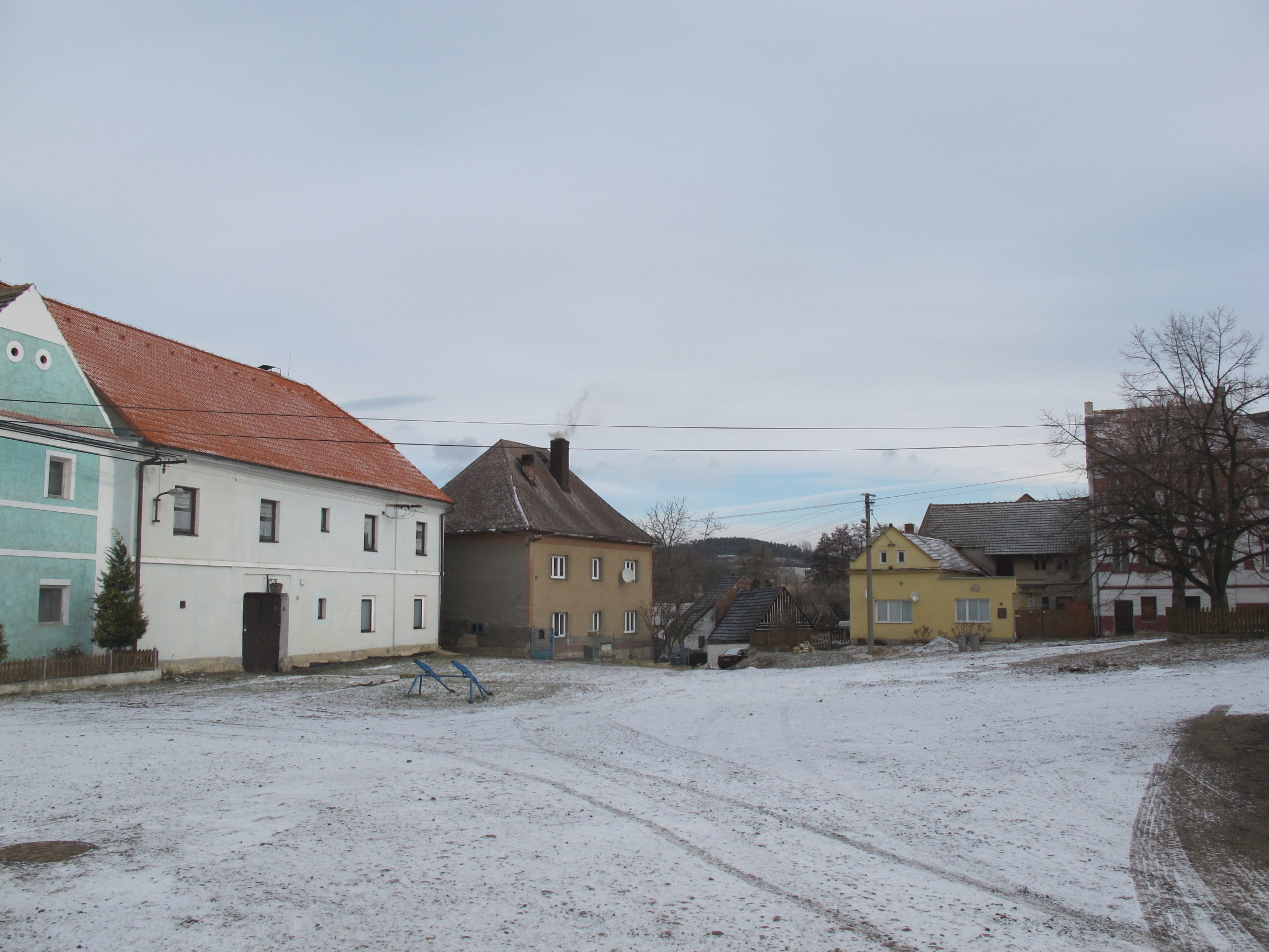 Village square in Kozly